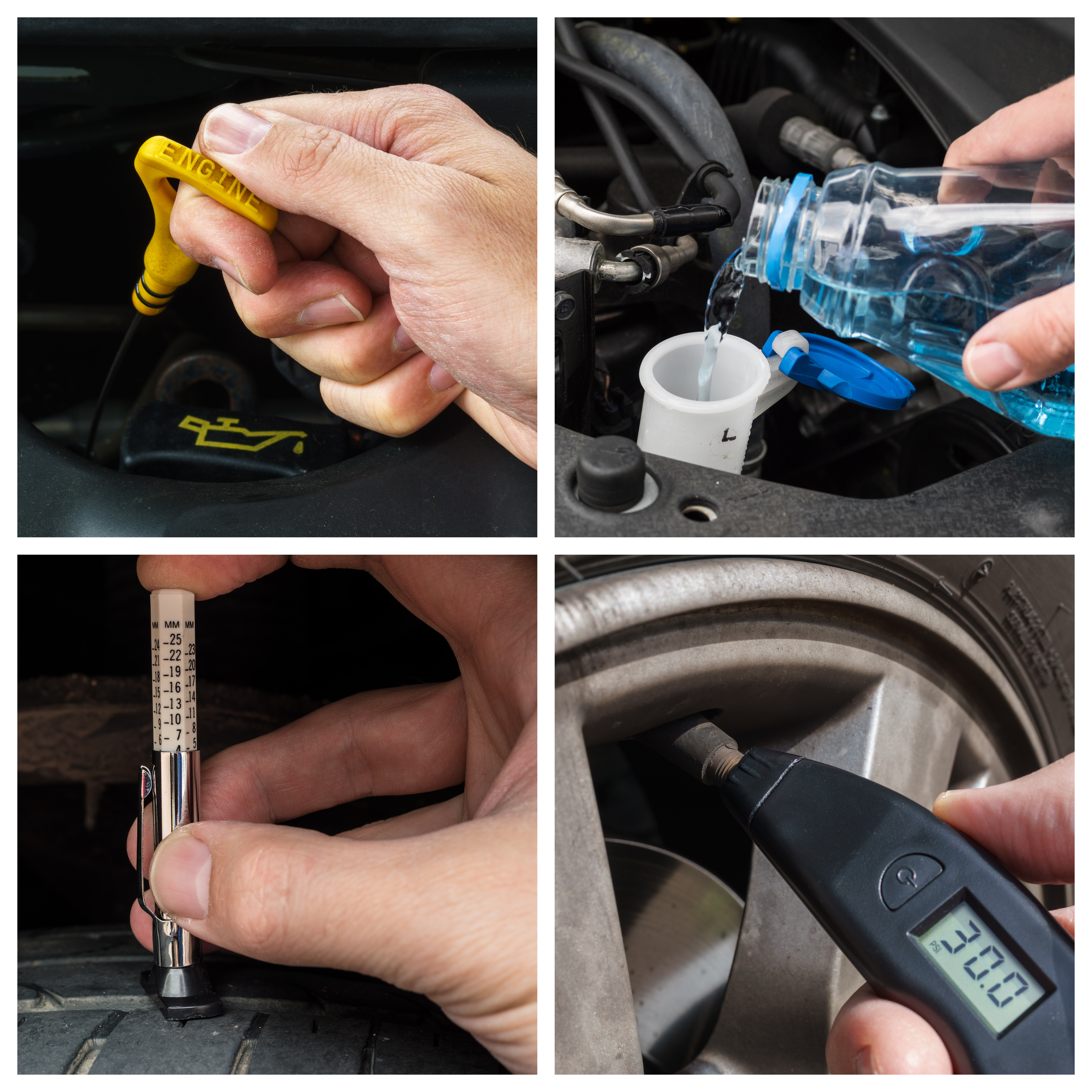 Check the oil; washer fluid; tyre tread depth and tyre pressure.